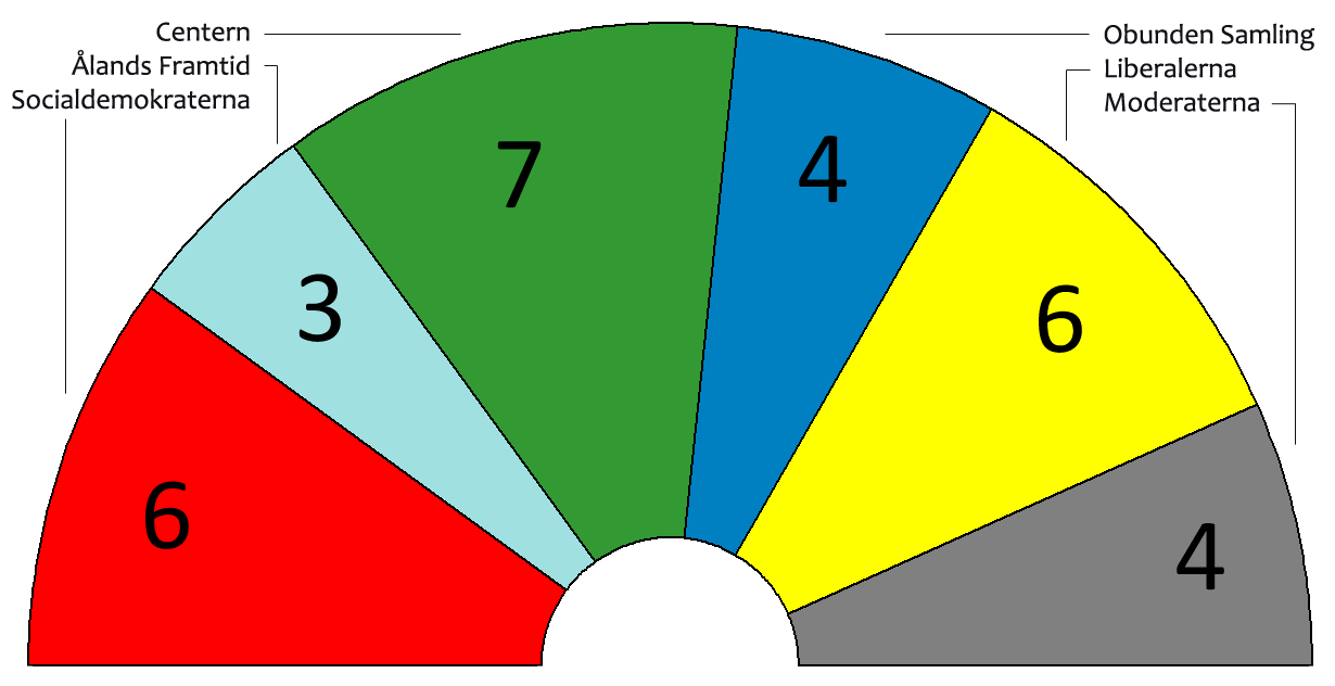 Seats in the Parliament of Åland, 2011 election Social Democrats (6) Independence party (3) Centre party (7) Non-aligned Coalition (4) Liberals (6) Moderates (4)